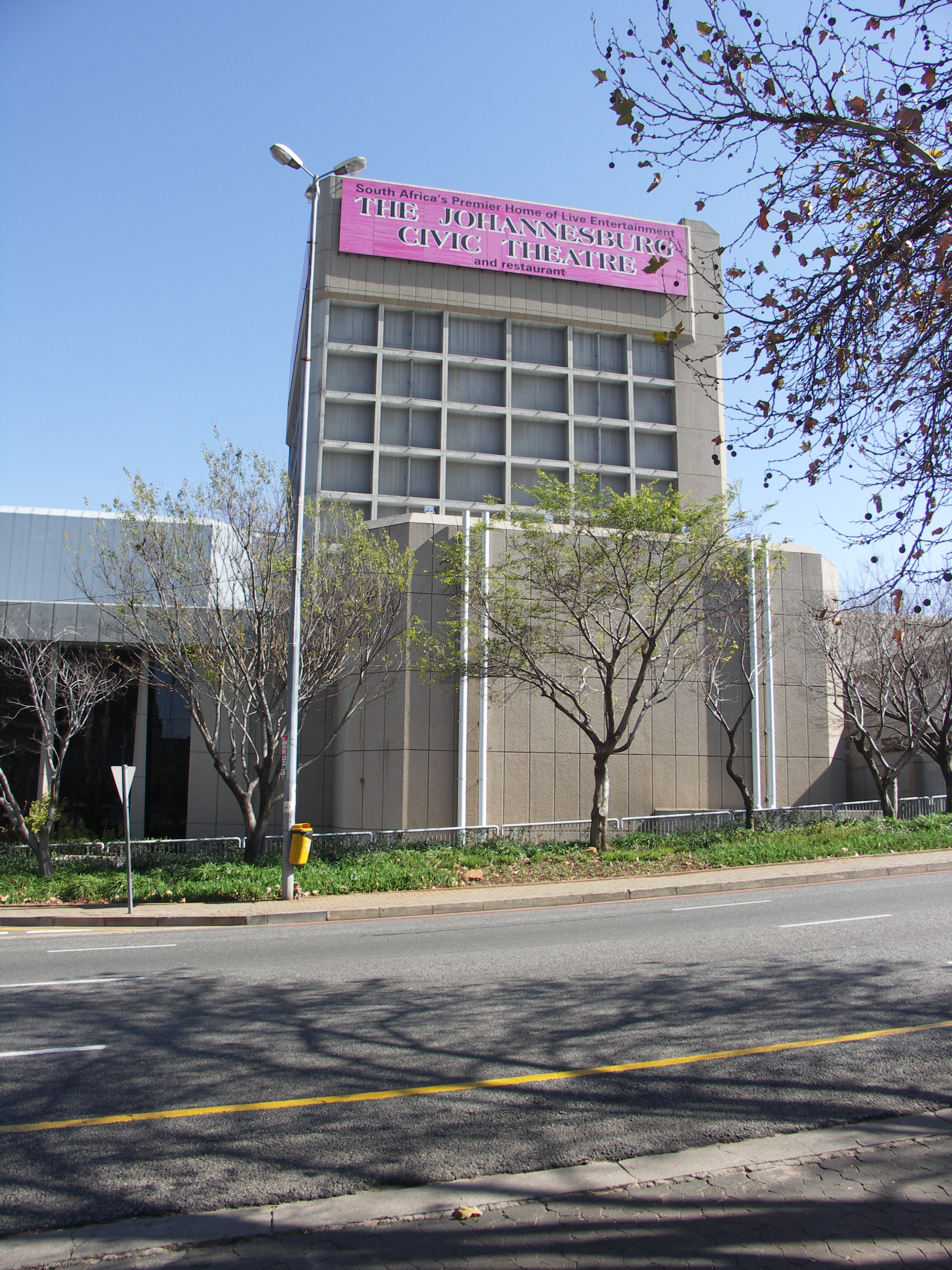 Johannesburg Civic Theater, Loveday Street, Braamfontein, Johannesburg